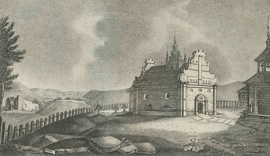 Illinska Church in Subotiv